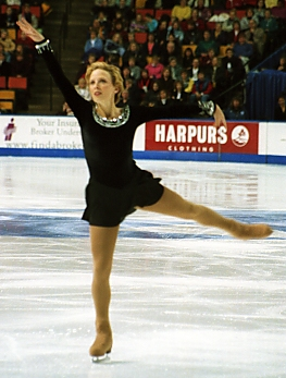 Lesley Hawker competes at the 2002 Canadian Championships in Hamilton, Ontario.